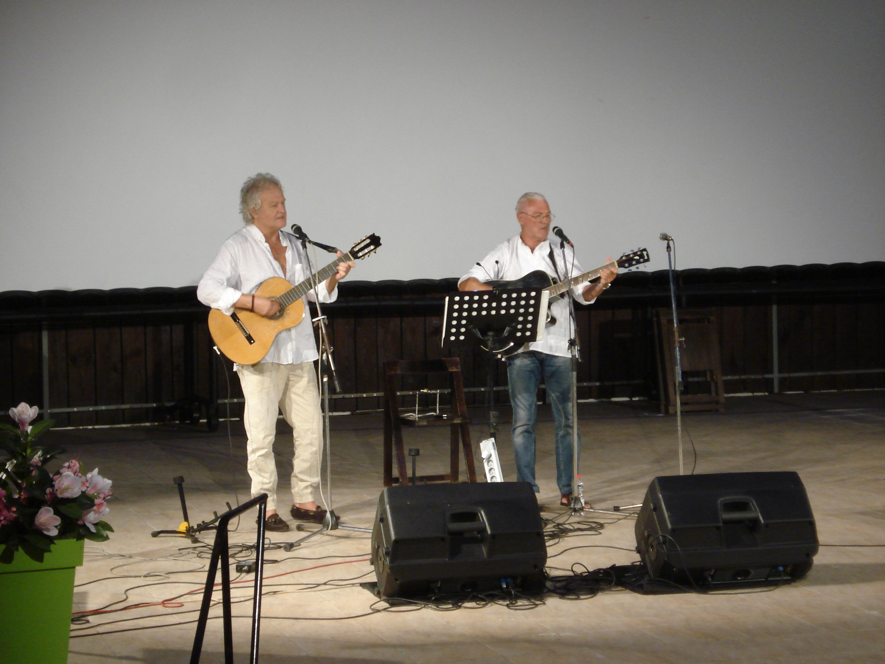 Vlada i Bajka na manifestaciji "Dani Danila Bate Stojkovića" u Vrnjačkoj Banji